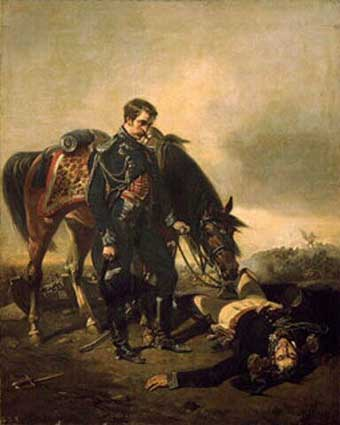 death of General François Joseph Kirgener